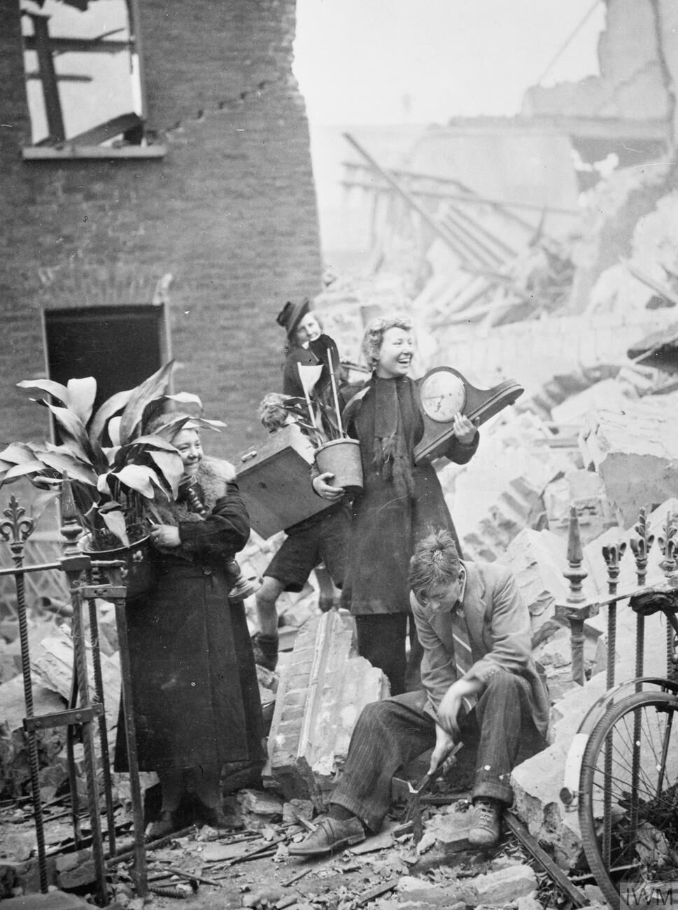 Air Raid Damage in London, 1940 Women salvaging prized possessions from their bombed house, including plants and a clock.